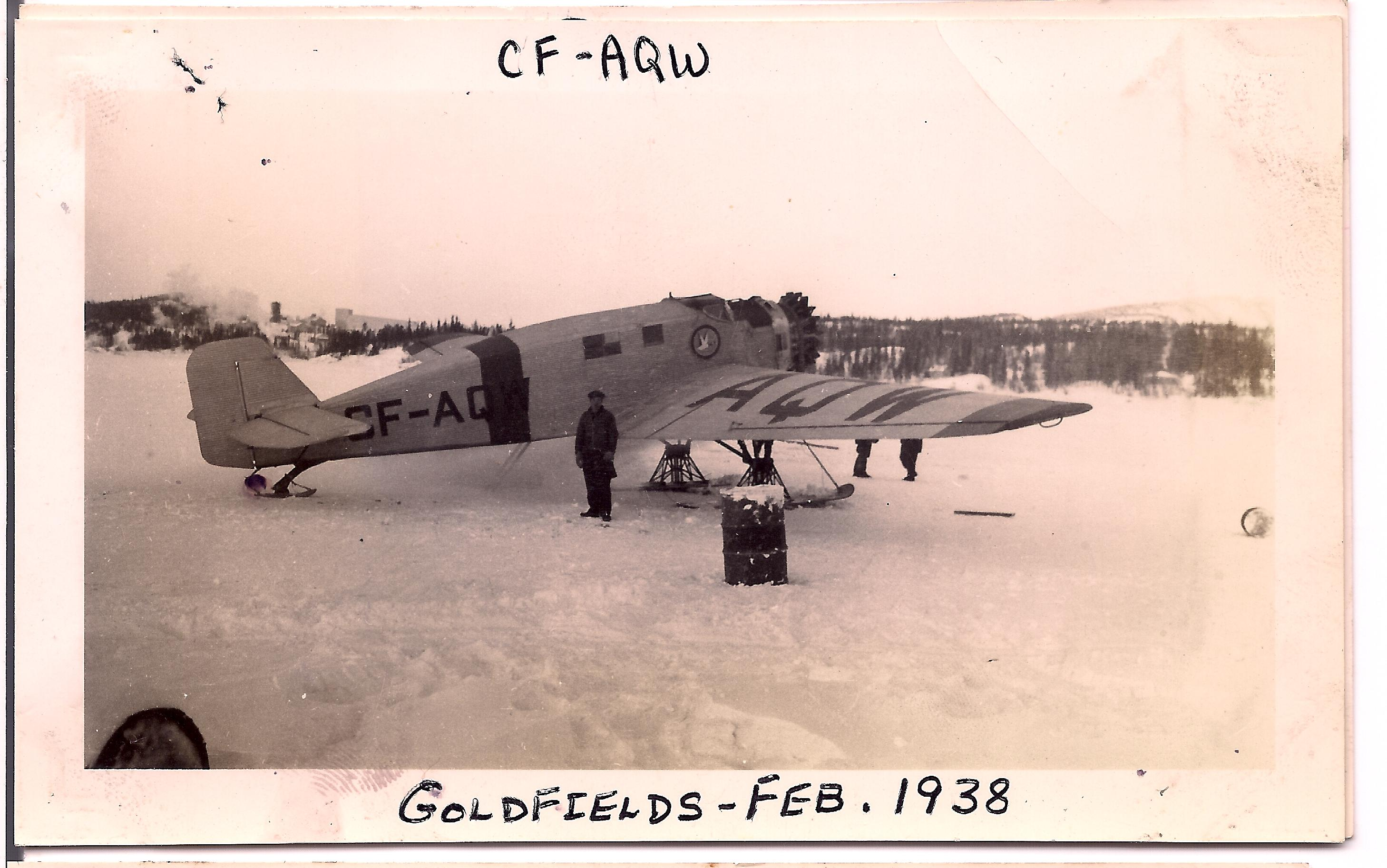 Goldfields, Saskatchewan, February 1938. From the Charles Eymundson fonds, PR2012.0927/183.